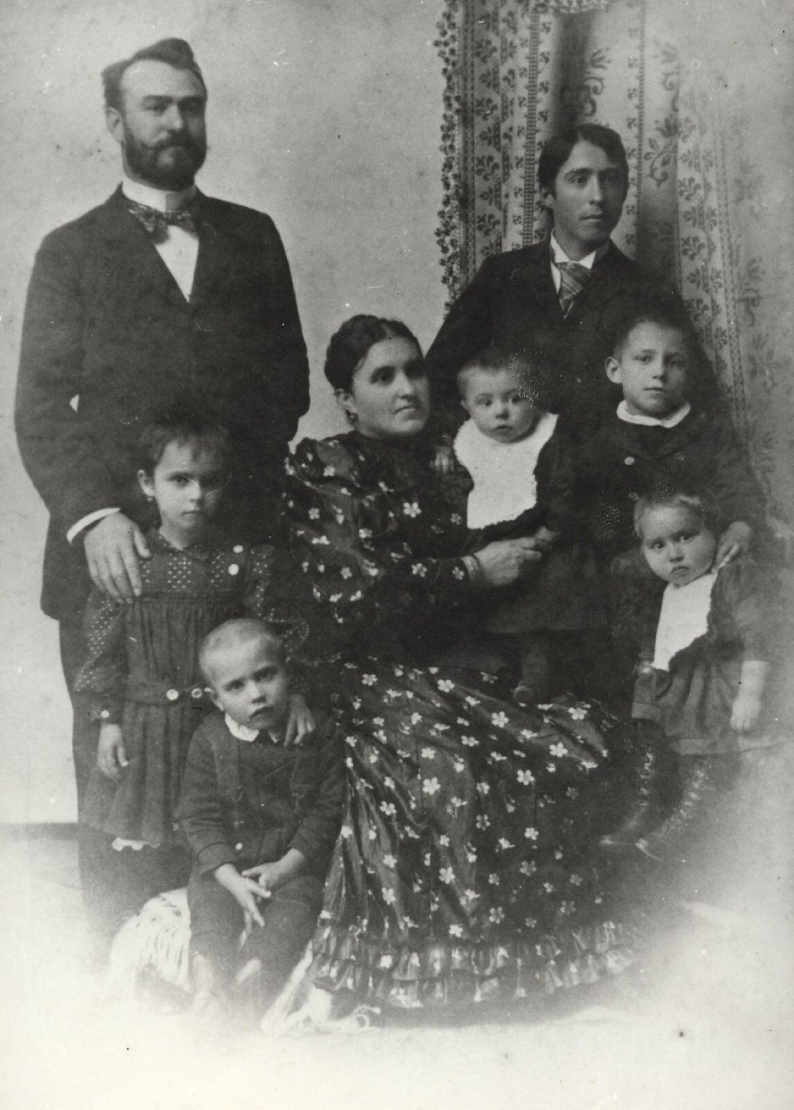 Ferenc Sima and his wife Julianna Donath their children